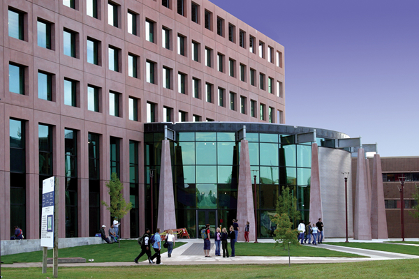 Advanced Technology & Academic Centre, Lakehead University